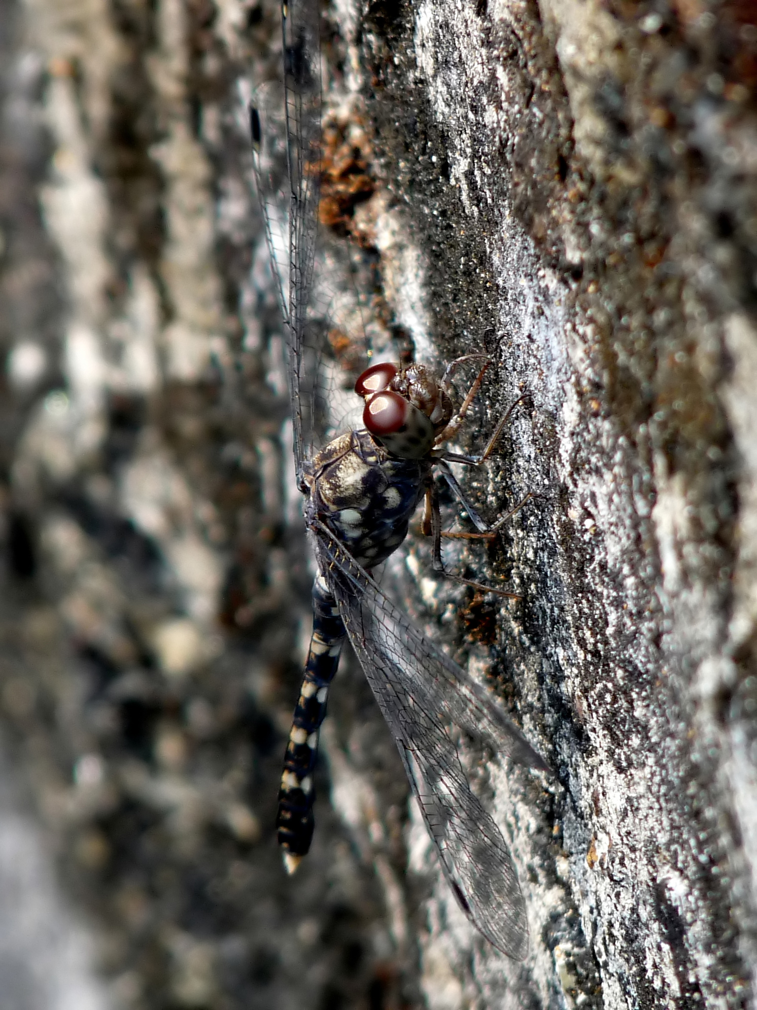 Rock Dweller/Granite Ghost (Bradinopyga geminata) A medium sized grey dragonfly with black and white markings. Grey thorax is marbled and peppered with black and light grey. This species is usually seen perched on compound stone walls, boulders etc. It easily merges with such perching sites because of its colouration. The species is commonly found near rock pools and other similar small water collections. It is common in the urban landscapes and breeds in overhead tanks and garden ponds. I found him on the granite masonry of my water well. Taken at Kadavoor, Kerala, India.